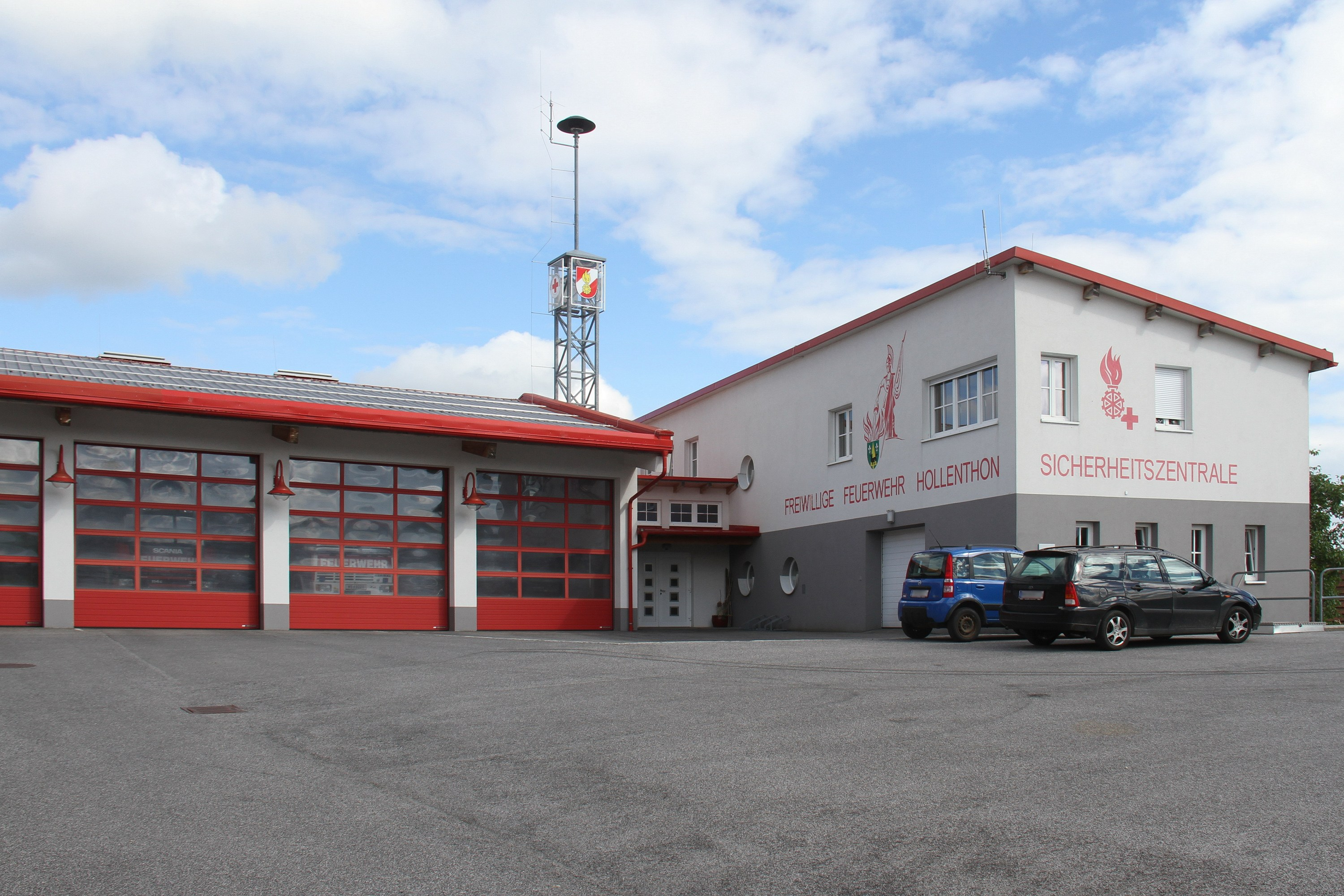 Municipality Hollenthon in Lower Austria. – The photo shows the security center of Hollenthon consisting of fire and rescue station.